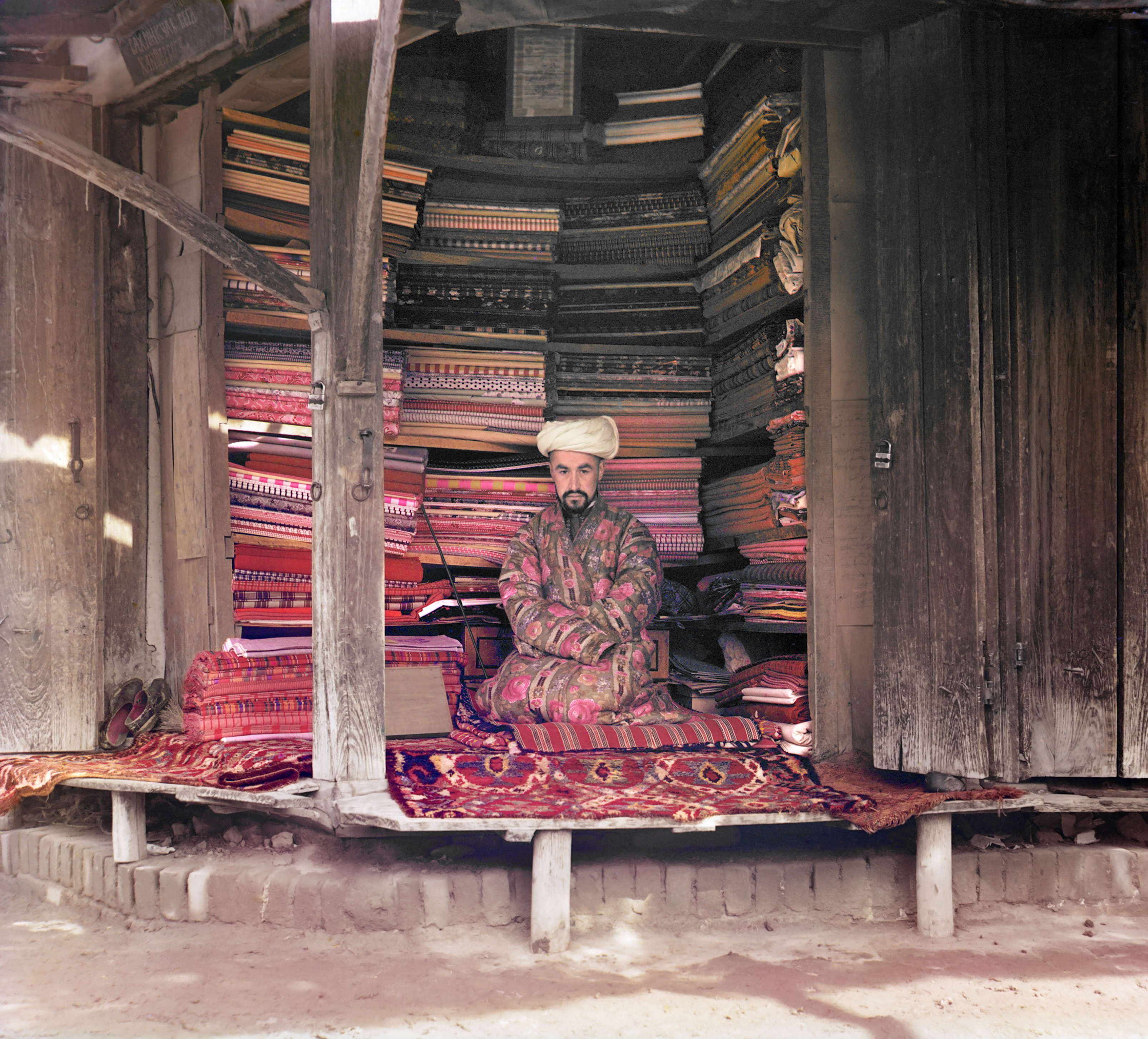 Original Description: Fabric merchant. Samarkand. Merchant's display includes silk, cotton, and wool fabrics as well as a few carpets. A framed page of the Koran hangs at the top of the stall.